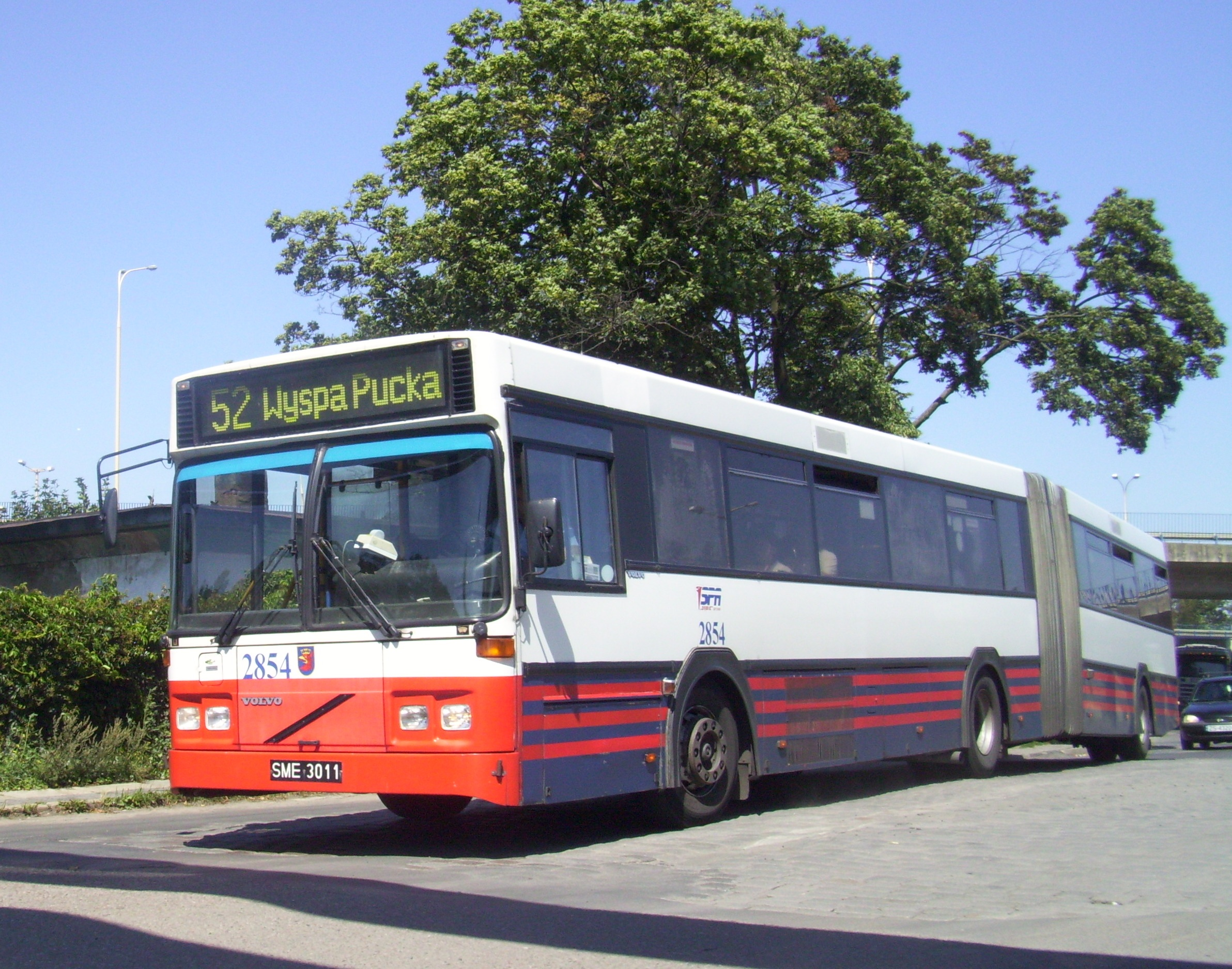 Volvo B10MA bus (#2854, reg. SME 3011) in Szczecin, Poland. Built 1998, SPA Dąbie operator.